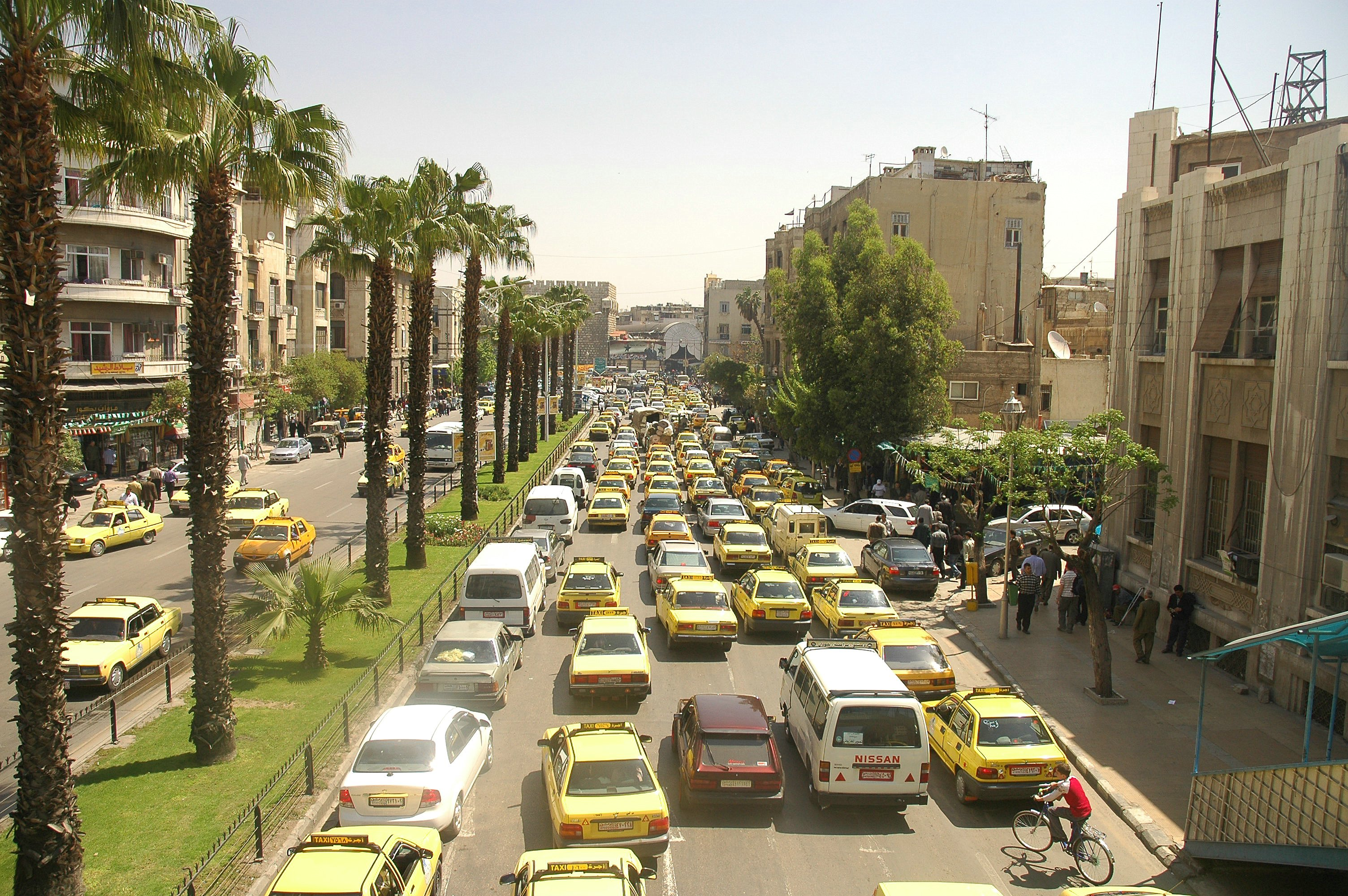 Traffic at Damascus streets.